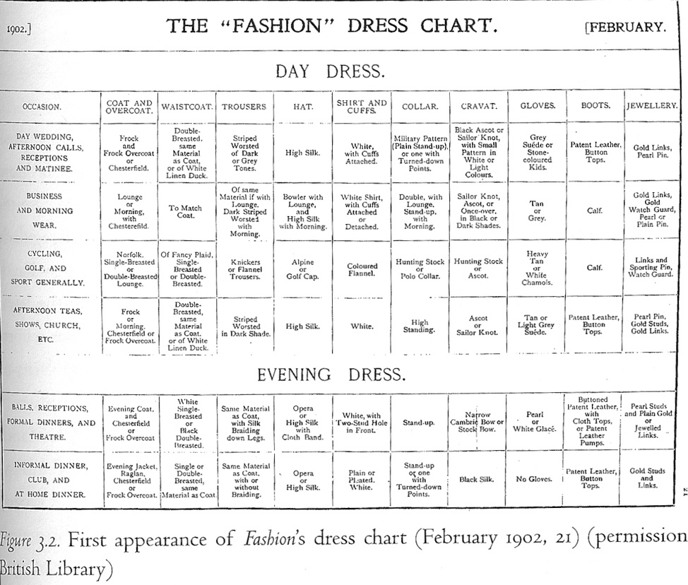 A plate from Fashion, showing the acceptable dress at that time in America.